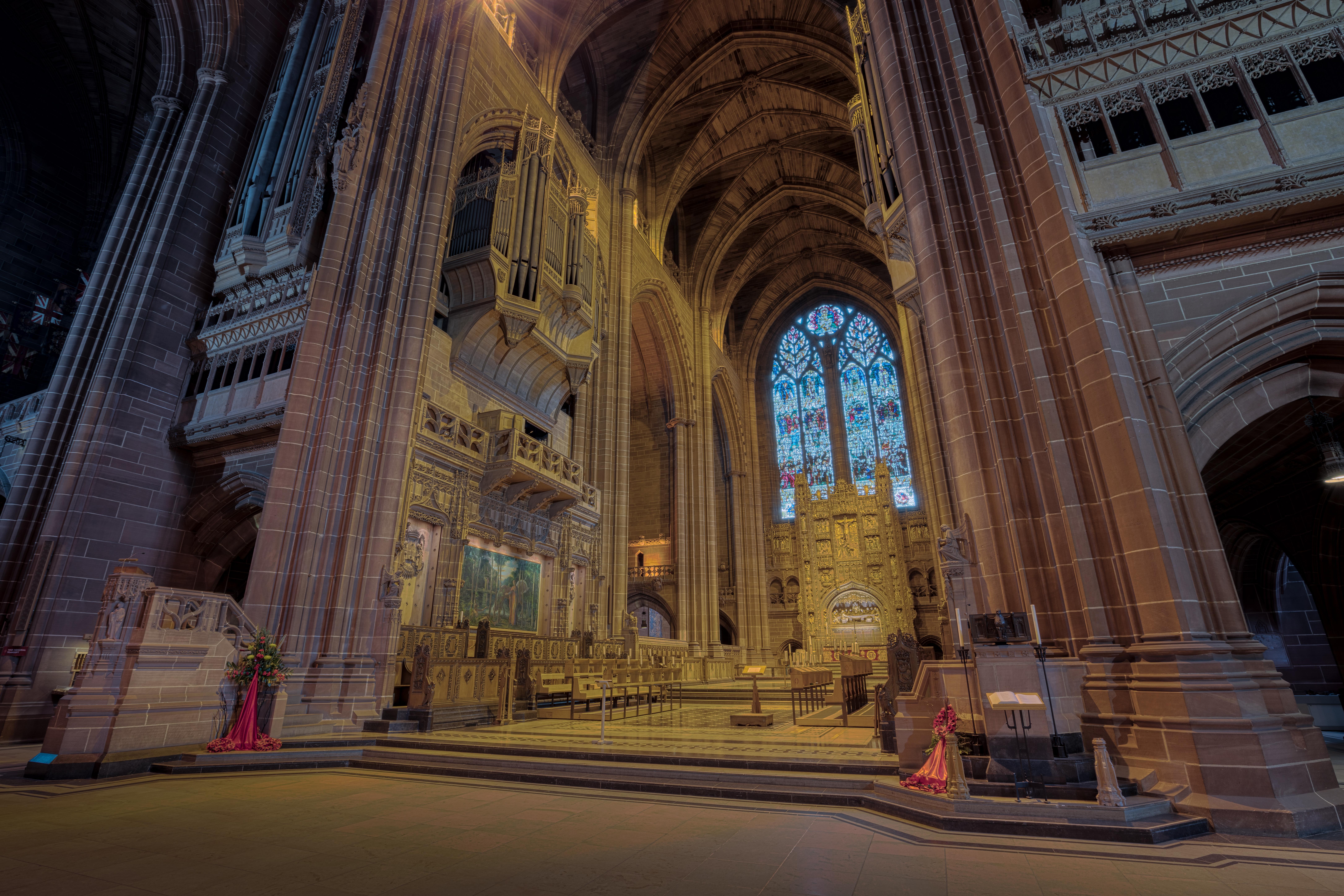 Here is an hdr photograph taken of the altar inside Liverpool Anglican Cathedral. Located in Liverpool, Merseyside, England, UK.